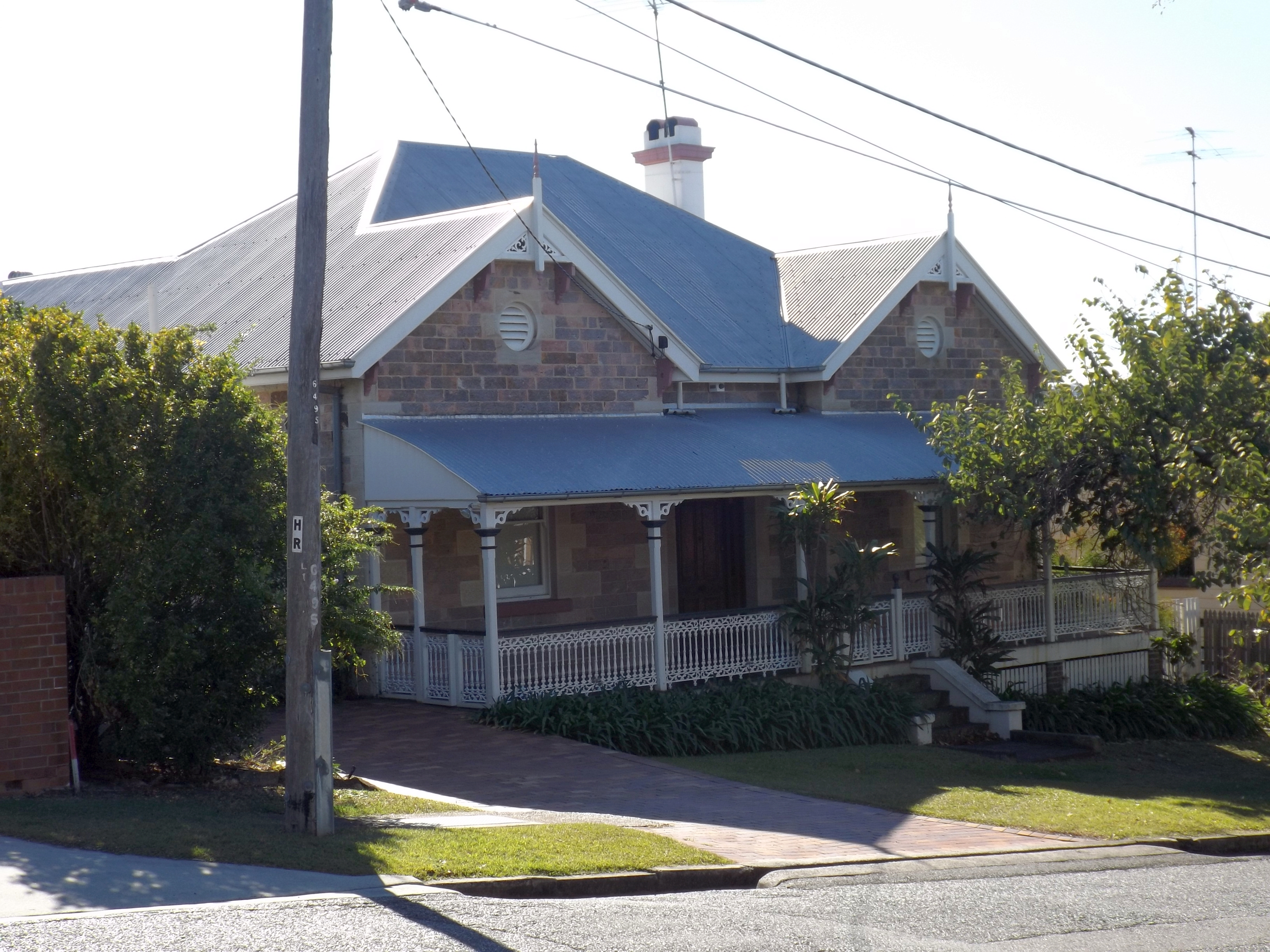 Photo of Craigellachie from opposite side of street at Windsor, Brisbane, Queensland, Australia.